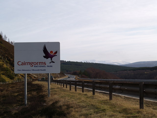 Cairngorm National Park This is taken on the A9 Inverness to Perth road near the Slochd Summit looking South-east towards the snow capped Cairngorm mountains.